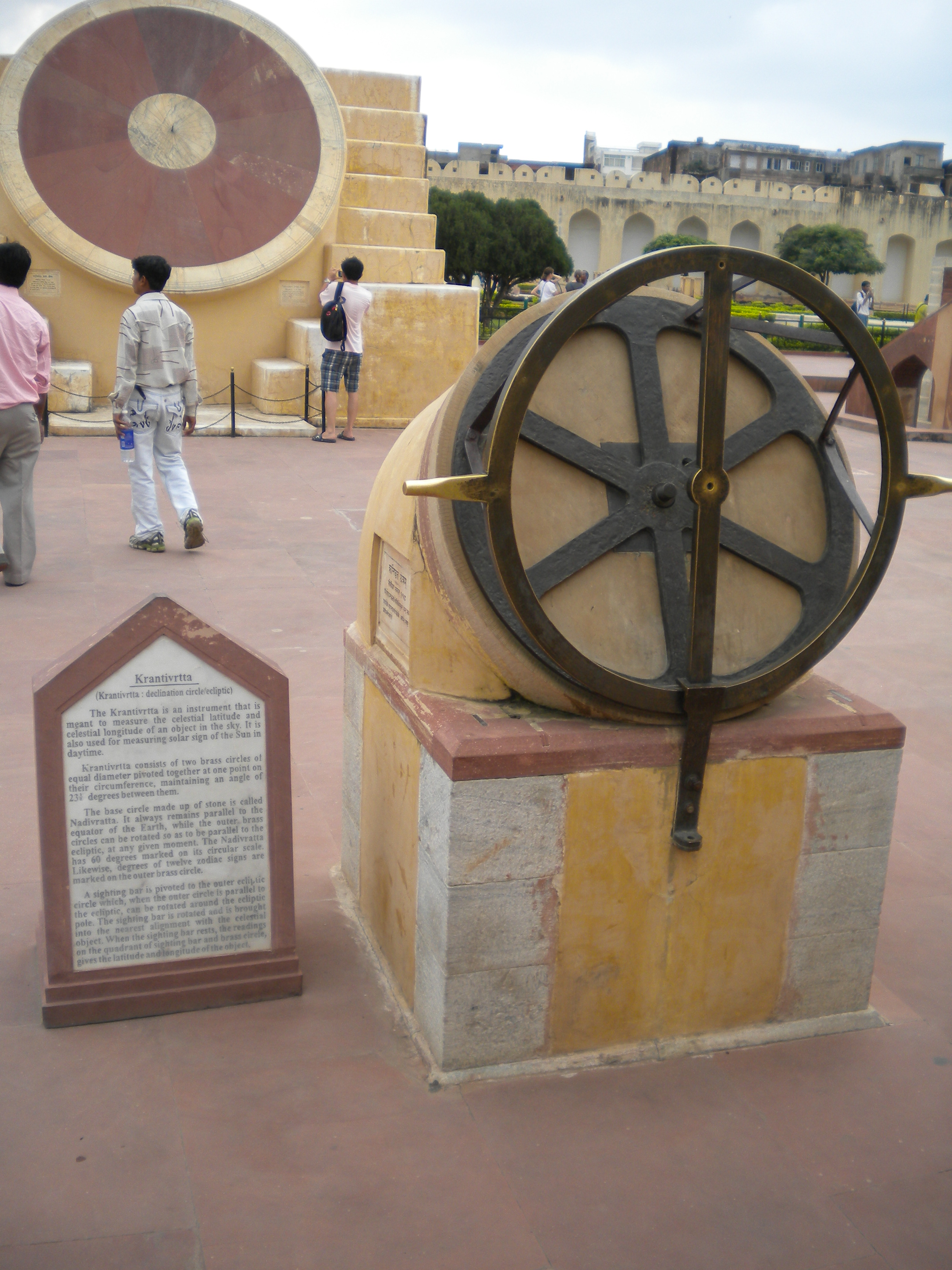 Kranti Vrtta, an astronomical device at Yantar Mantar, Jaipur